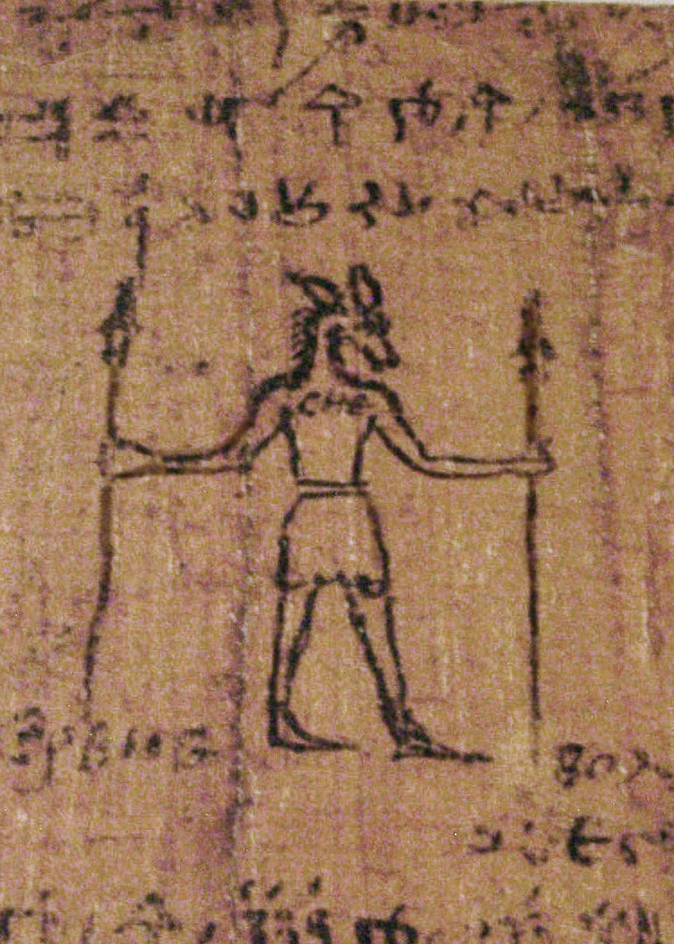 The Greek Magical Papyri is a collection of ancient writings forming into a grimoire, which is a book based on the practice of magical rituals. These writings combine Greco-Roman ideas with western esotericism and Egyptian mythology. The picture seen here shows the Egyptian god Set in the papyrus having the Coptic spelling of his name written on his chest.